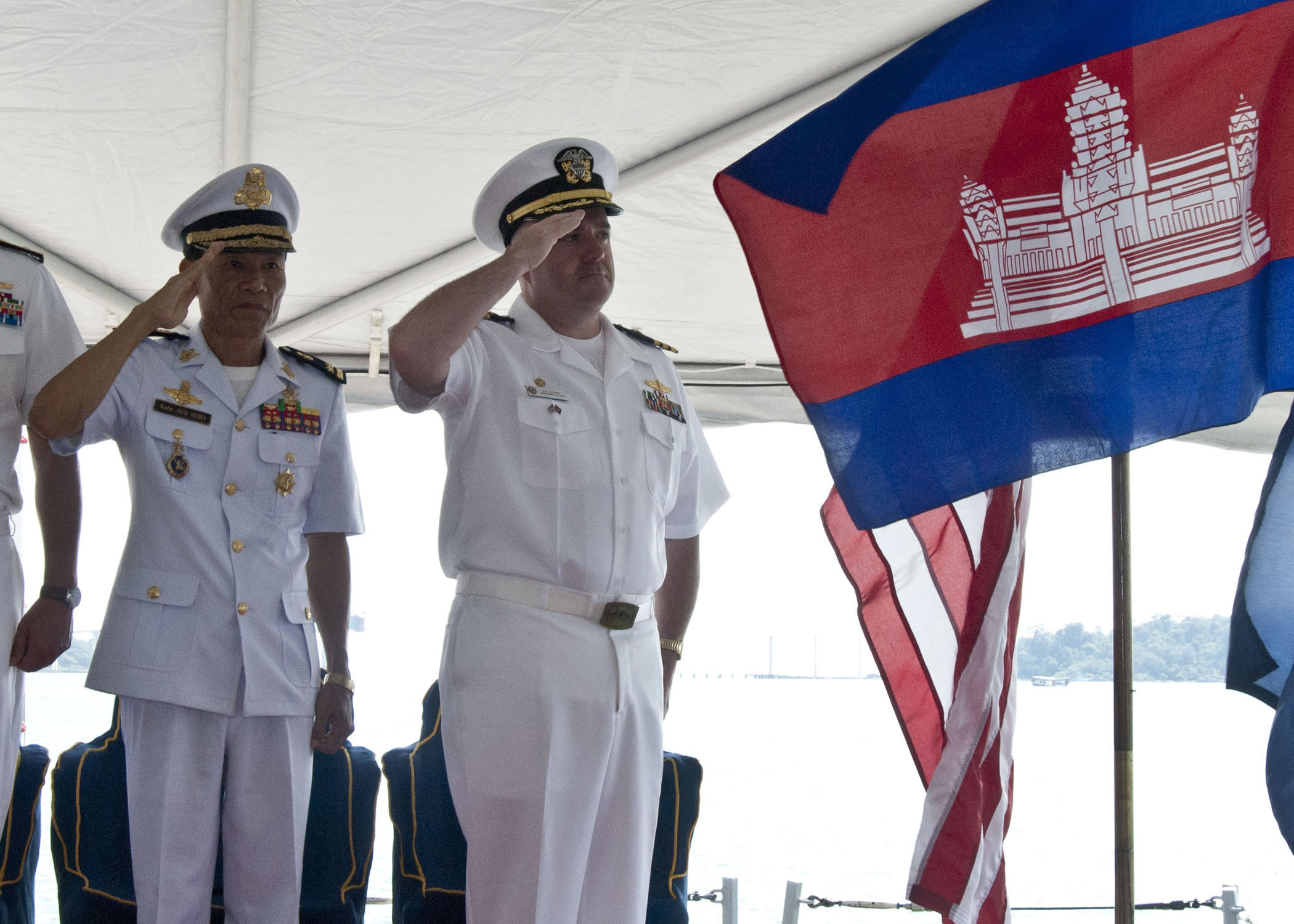 SIHANOUKVILLE, Cambodia (Oct. 25, 2010) U.S. Navy Cmdr. Joseph Keenan, right, commanding officer of the guided-missile frigate USS Crommelin (FFG 37), and Royal Cambodian Navy Rear Adm. Ouk Seiha, Ream Naval Base commander, salute during the Cambodian national anthem at the opening ceremonies for the second phase of Cooperation Afloat Readiness and Training (CARAT) Cambodia 2010. CARAT is a series of bilateral exercises held annually in Southeast Asia to strengthen relationships and enhance force readiness. (U.S. Navy photo by Mass Communication Specialist 2nd Class Jason Tross/Released)